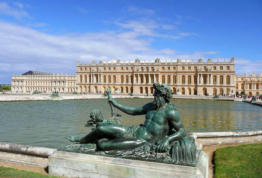 Palace of Versailles